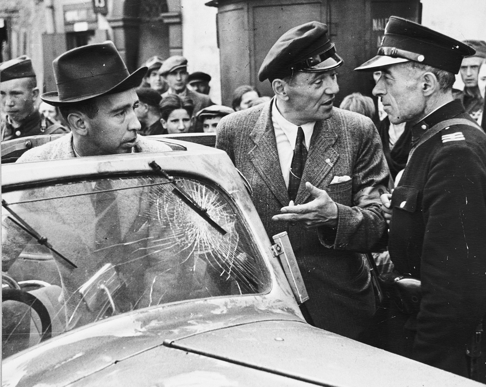 Siege of Warsaw by German forces in September of 1939. A crowd of Polish civilians watches interpreter is talking with a policeman (Frank Kotlewski) that the man in the turned-up fedora is an American photographer Julien Bryan and not a German spy. Windshield was shattered during bombardment.